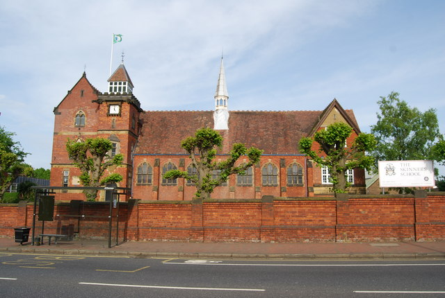 The Skinners' School One of two Boys' Grammar Schools run by the Skinners' Company in West Kent. The other is the Judd School in Tonbridge. Skinners also funds Tonbridge School, a private school.